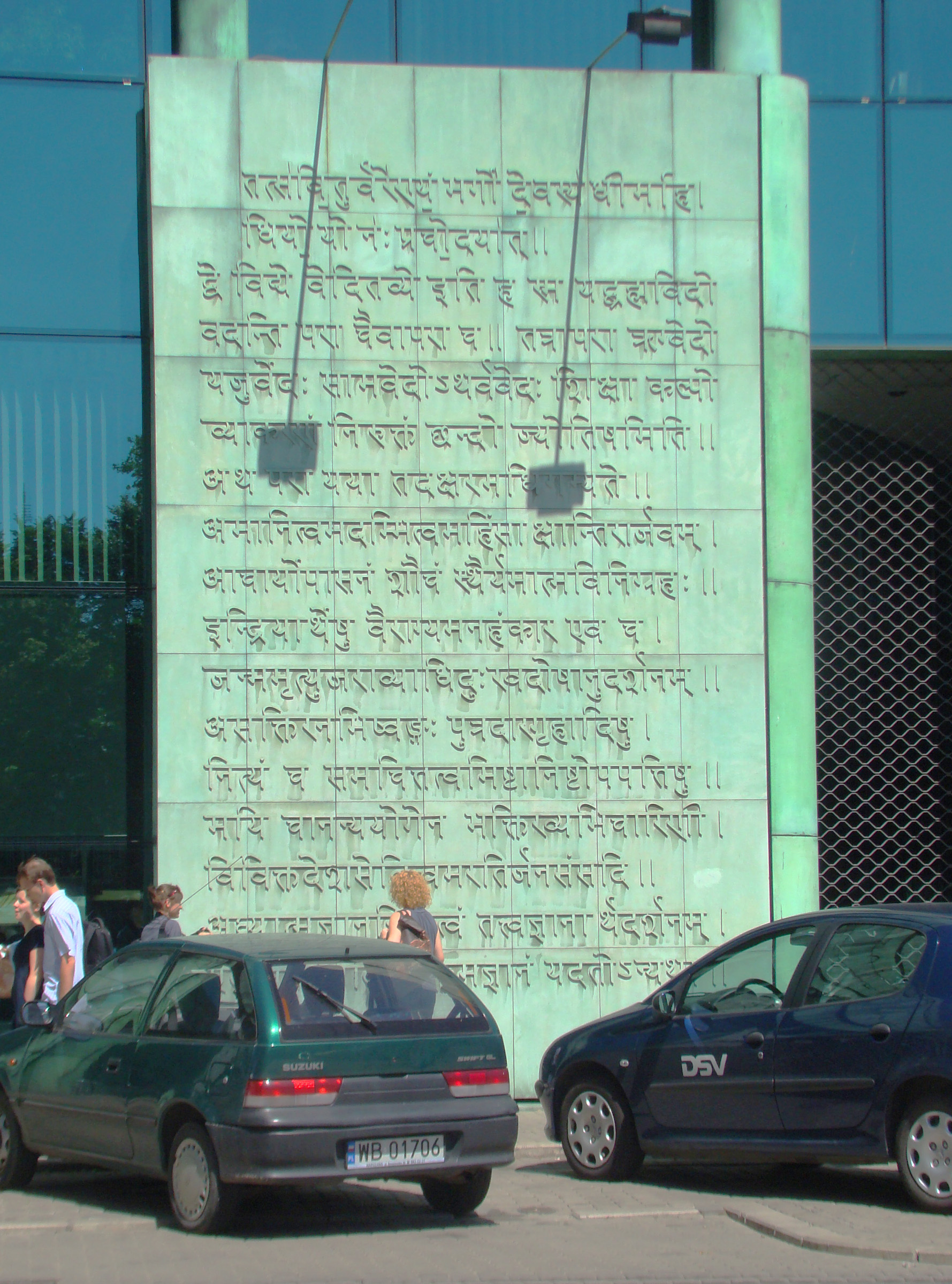 Warsaw University Library